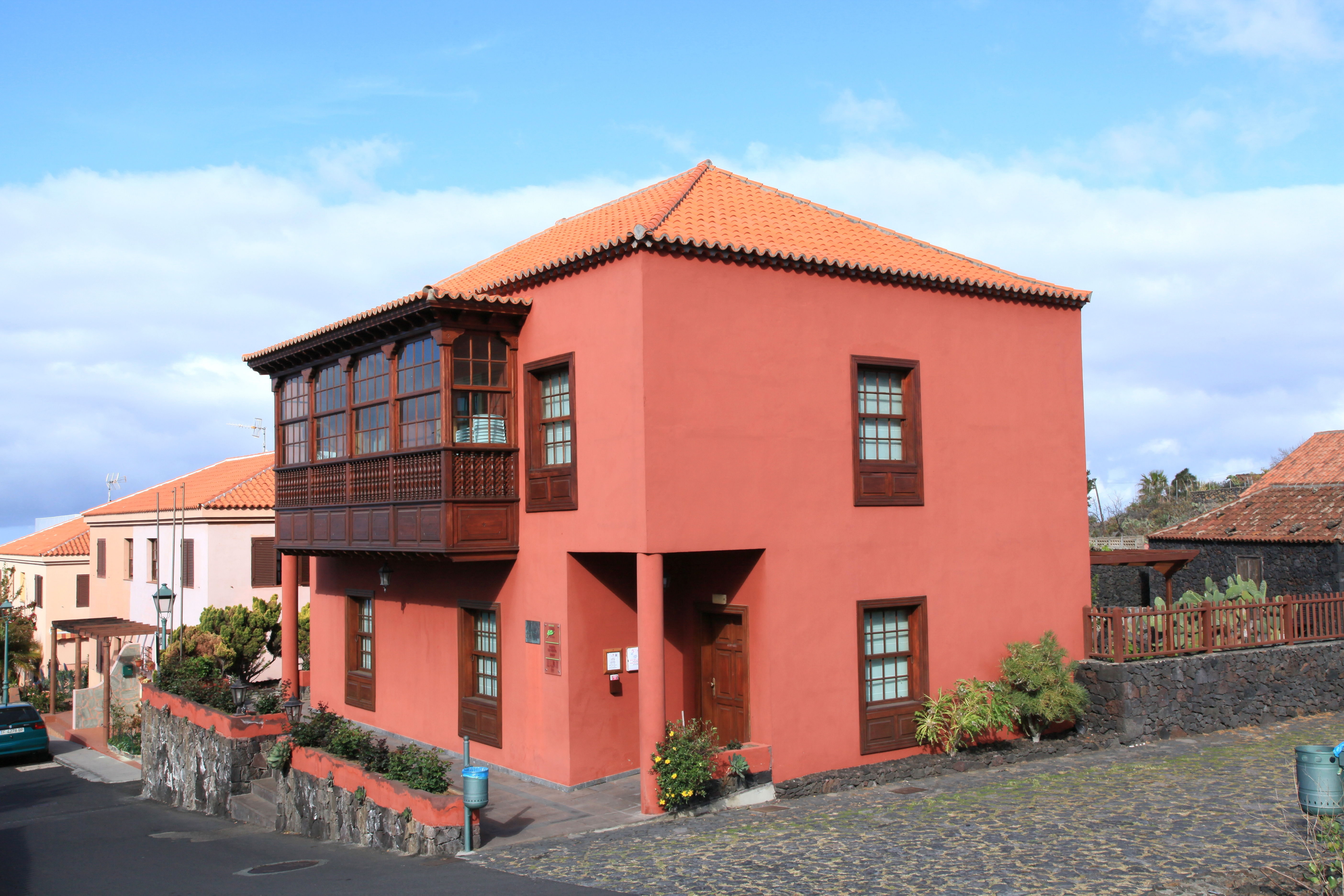 Casa Museo del Vino Las Manchas at Camino El Callejón de Las Manchas in Las Manchas, Los Llanos de Aridane, La Palma, Canary Island, Spain